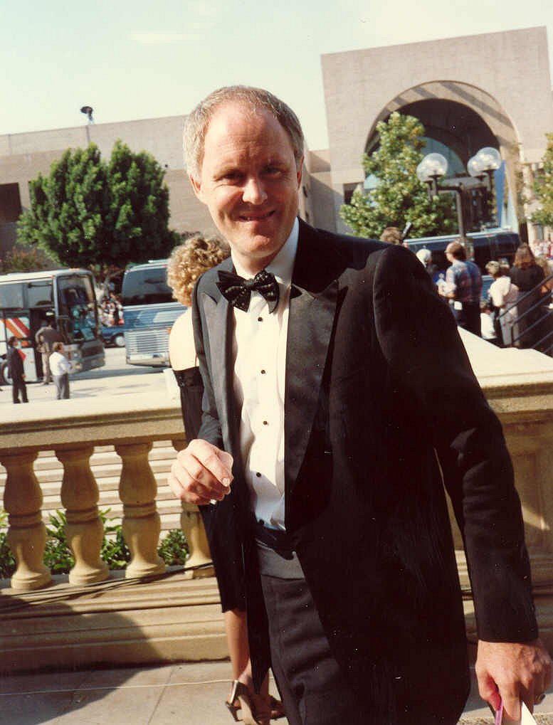 John Lithgow on the red carpet at the 40th Annual Primetime Emmy Awards, 8/28/88